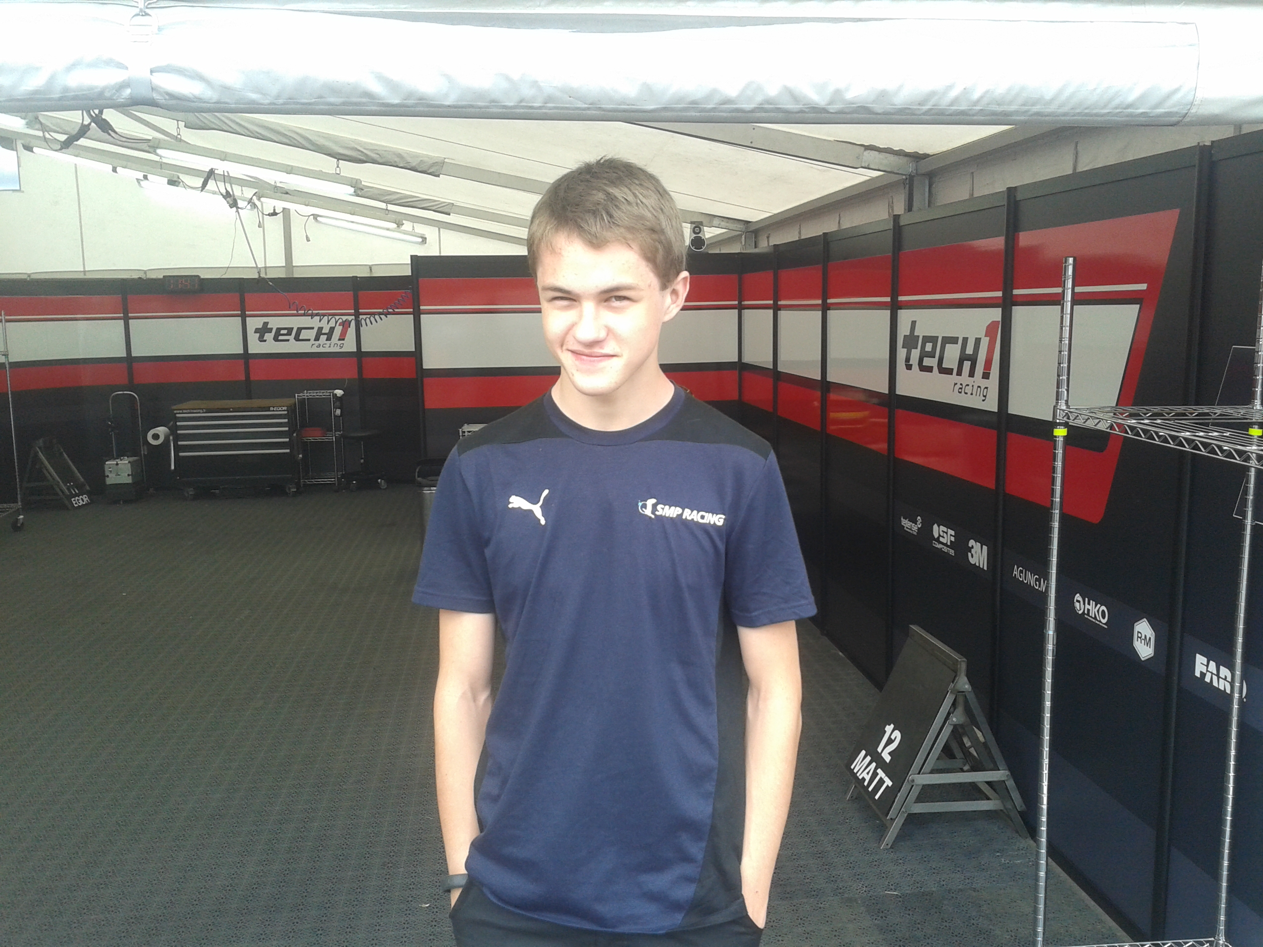 Egor Orudzhev at Moscow Raceway, 22 June 2013